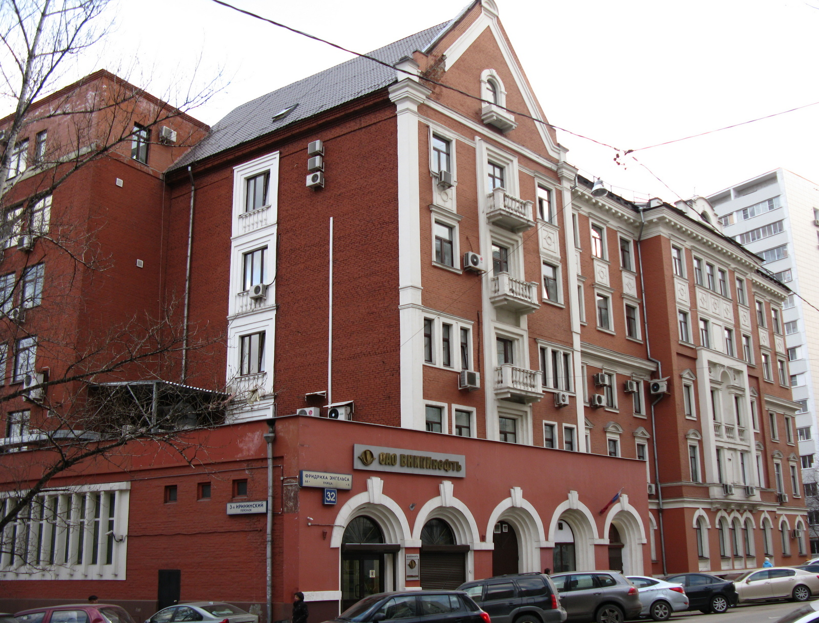 Fridricha Engelsa Street 32